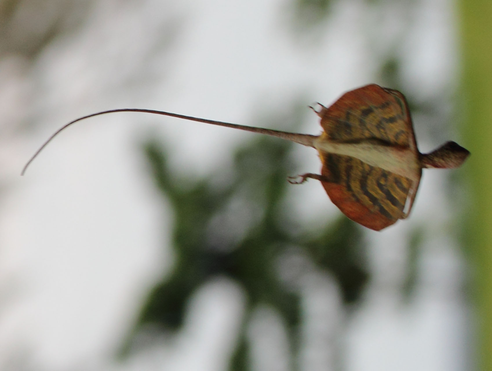 Draco taeniopterus Gunther, 1861 from Bulon Island, Thailand